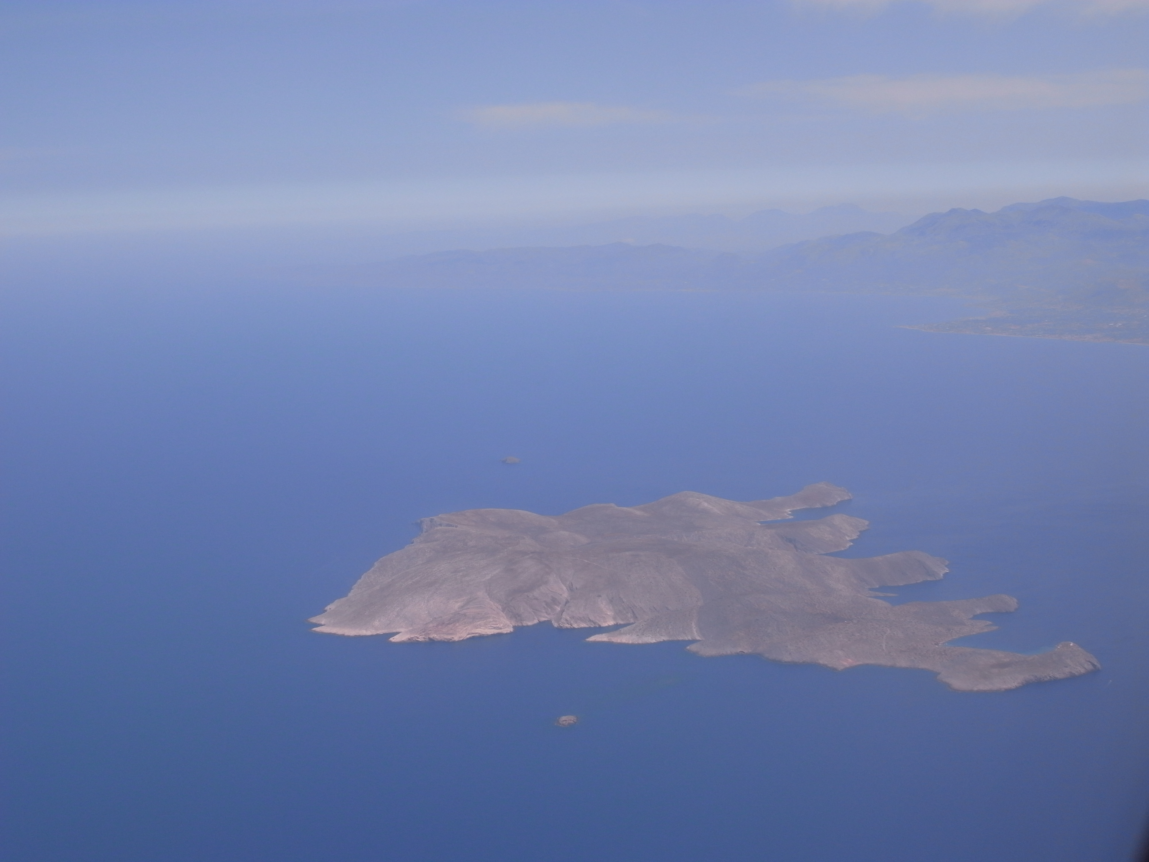 The island of Dia, north of Crete, Petalidi rock in front, Greece